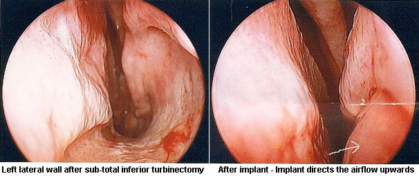 Before and after implantation of the lateral wall with Alloderm to simulate the function of the missing inferior turbinate.